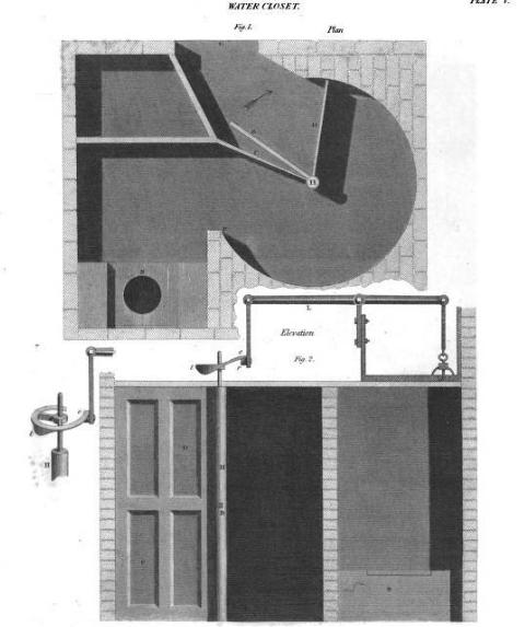 from The philosophy of domestic economy: as exemplified in the mode of warming ... By Charles Sylvester. Showing a design for a super loo. Sylvester gives a lot od credit to Strutt for his work